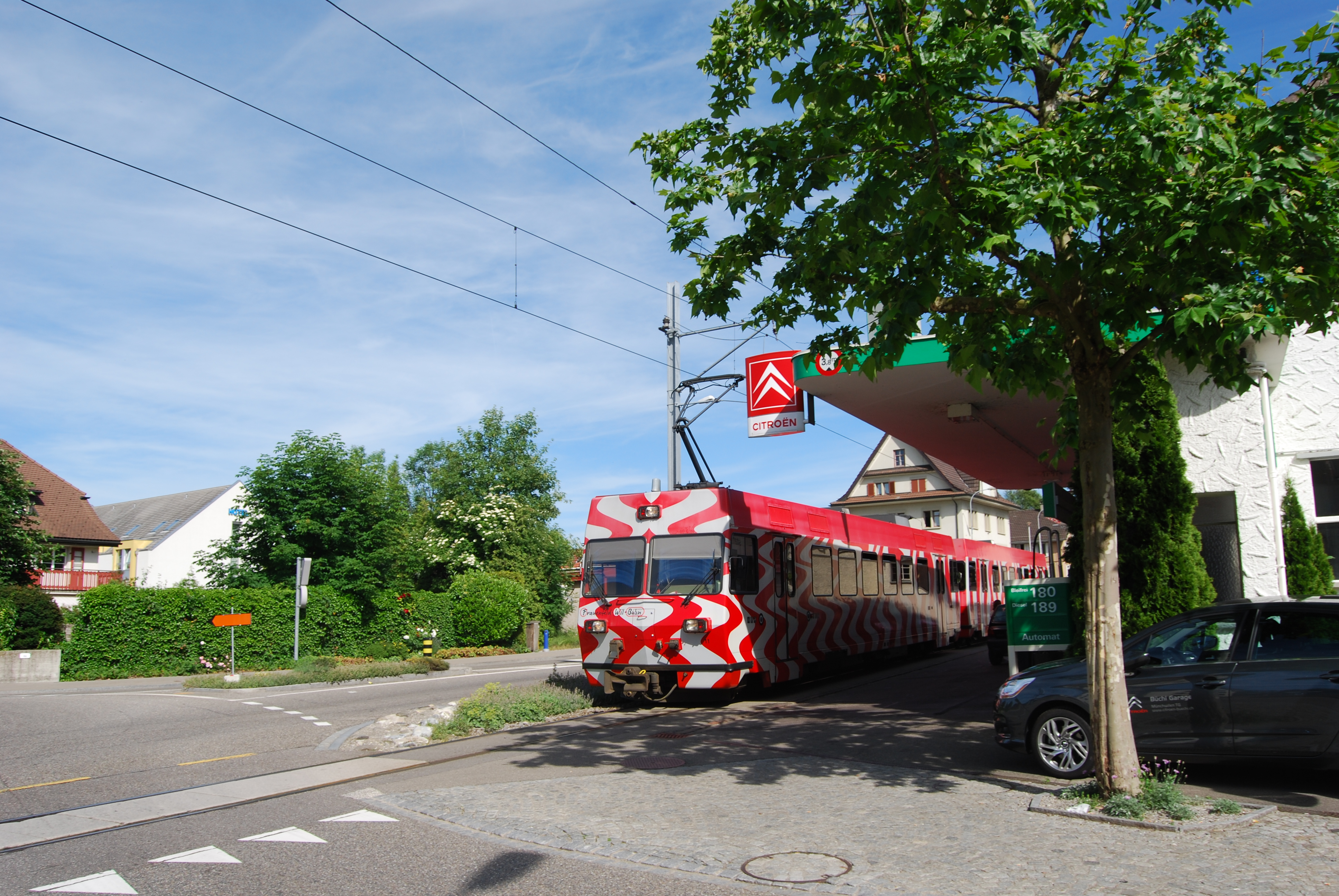 Münchwilen, canton of Thurgovia, Switzerland